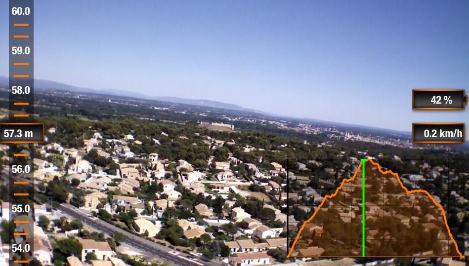 AR.Drone 2.0 flying over suburb in Avignon, France